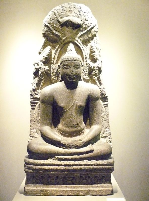 Sculpture of the Buddha meditating under the Bodhi Tree, 800 C.E . Brooklyn Museum.